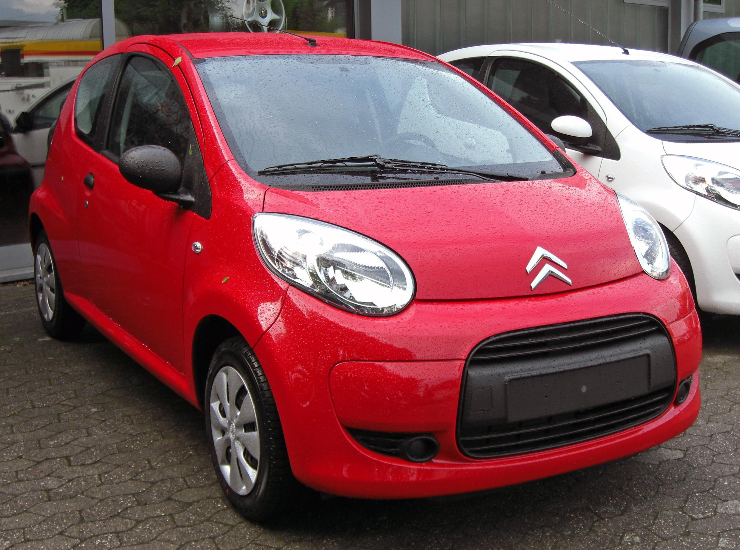 Citroën C1